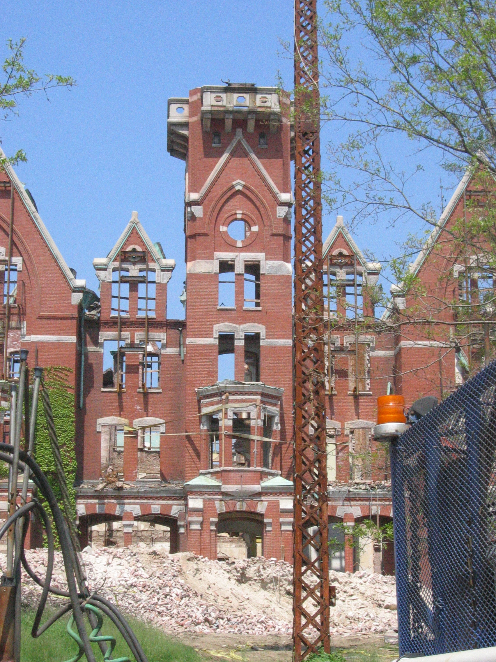 Photo by Devlin Mannle. Danvers State Hospital Demolition.